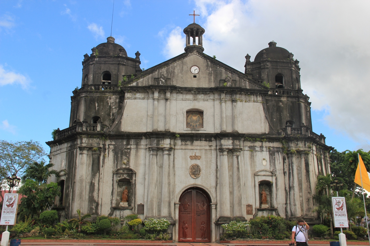 Naga Metropolitan Cathedral